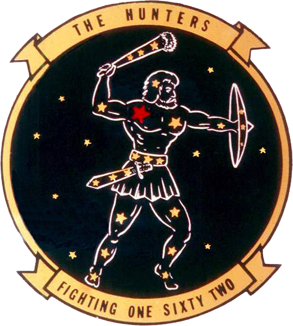 Insignia of the U.S. Navy Fighter Squadron 162 (VF-162) "Hunters".